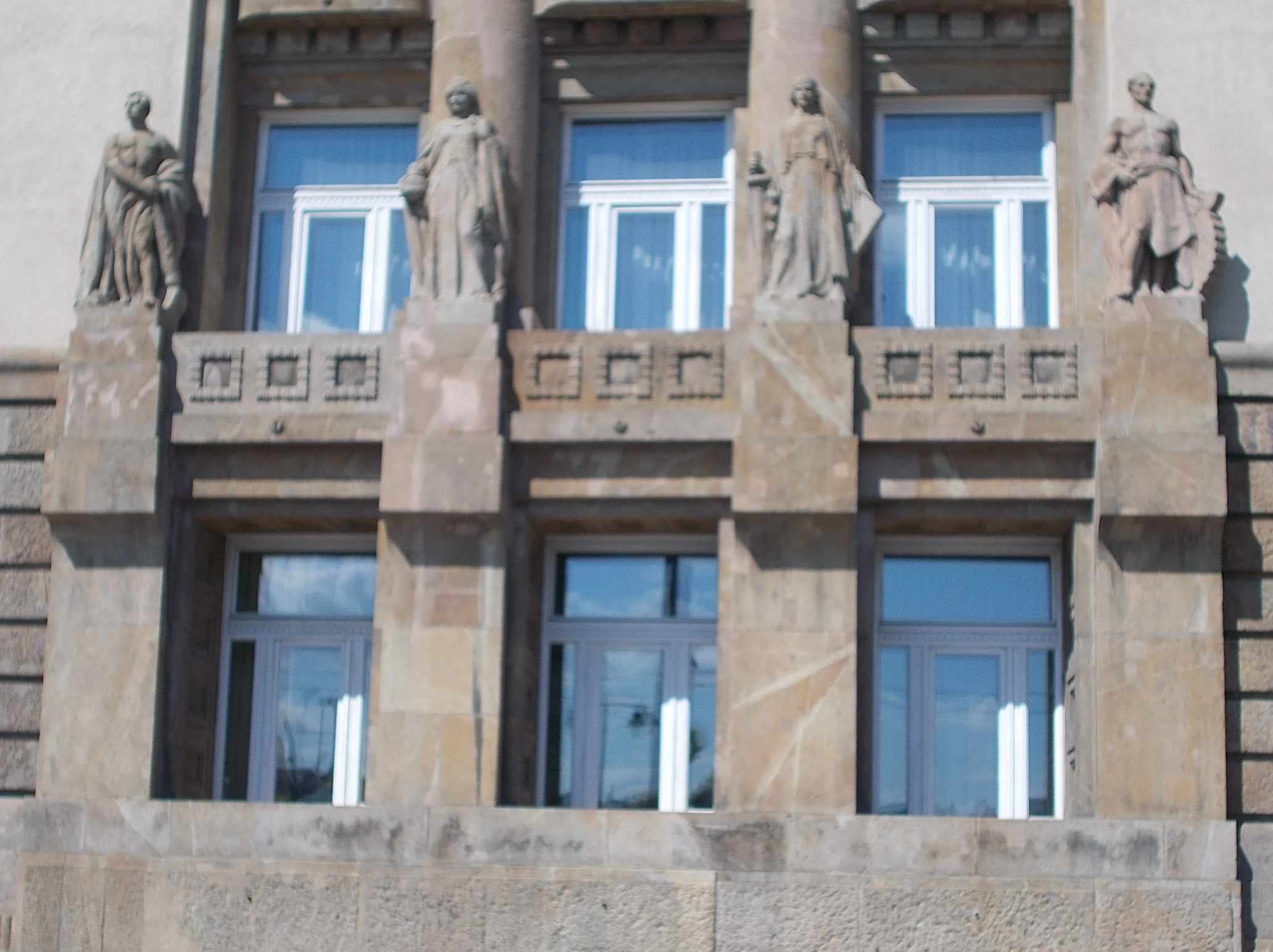 Foreign Ministry statues. Allegorical men and women statues. - 47 Bem rakpart, Budapest District II, Hungary.